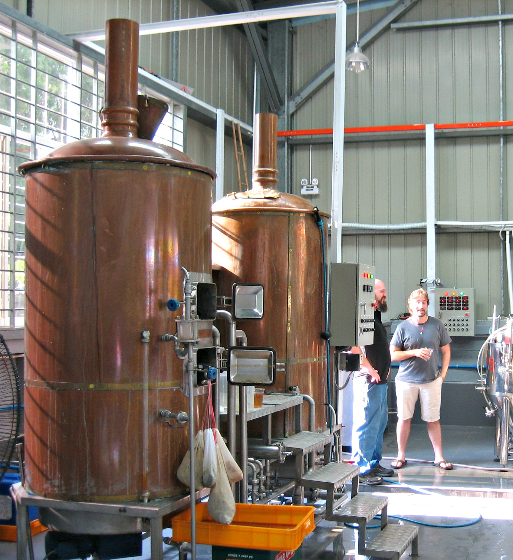 Tour of Pasteur Street Brewing Company, Vietnam